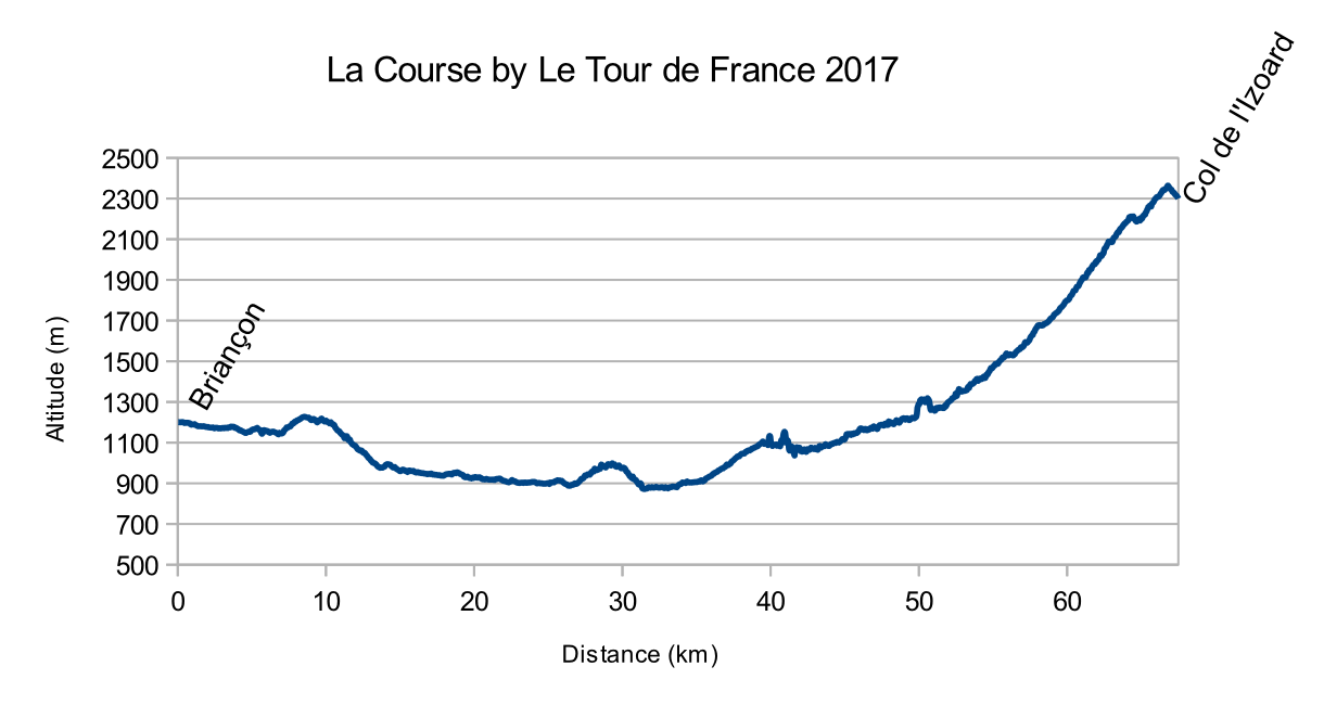 Profil of La course by Le Tour 2017